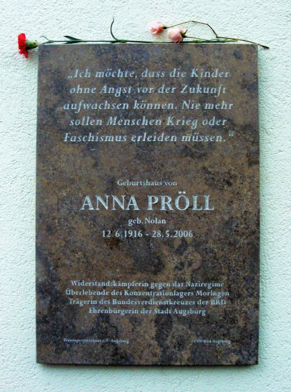 commemorative plaque Anna Pröll, honorary citizen of Augsburg, Germany